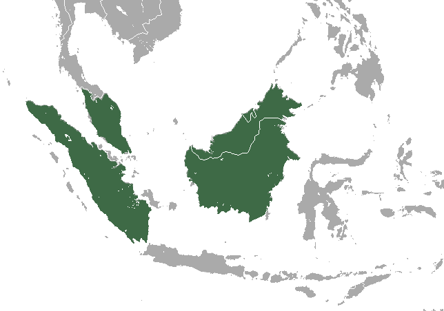 Dusky Fruit Bat (Penthetor lucasi) range